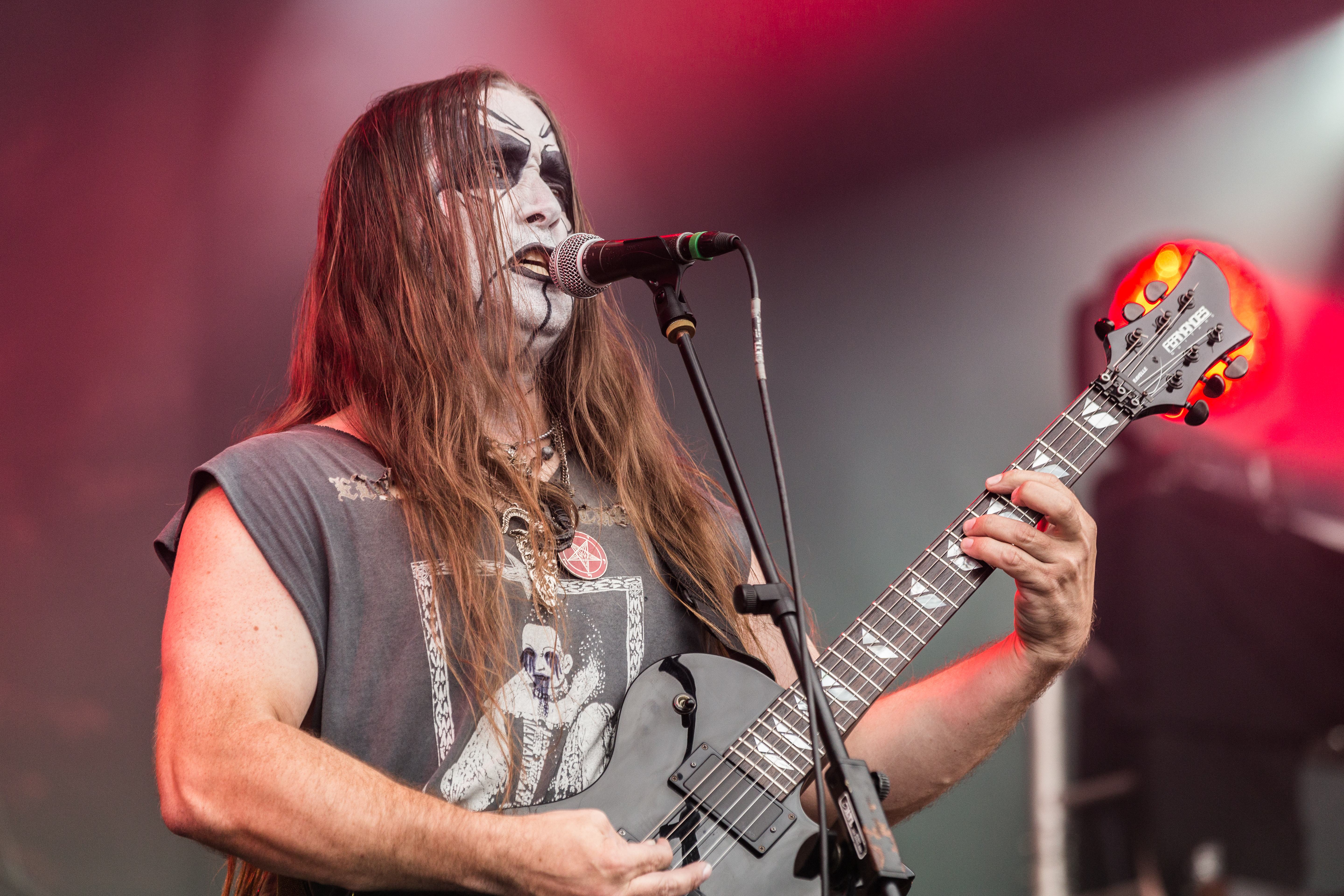 The Colombian black metal band Inquisition at the Party.San Metal Open Air 2017 in Obermehler-Schlotheim/Germany.